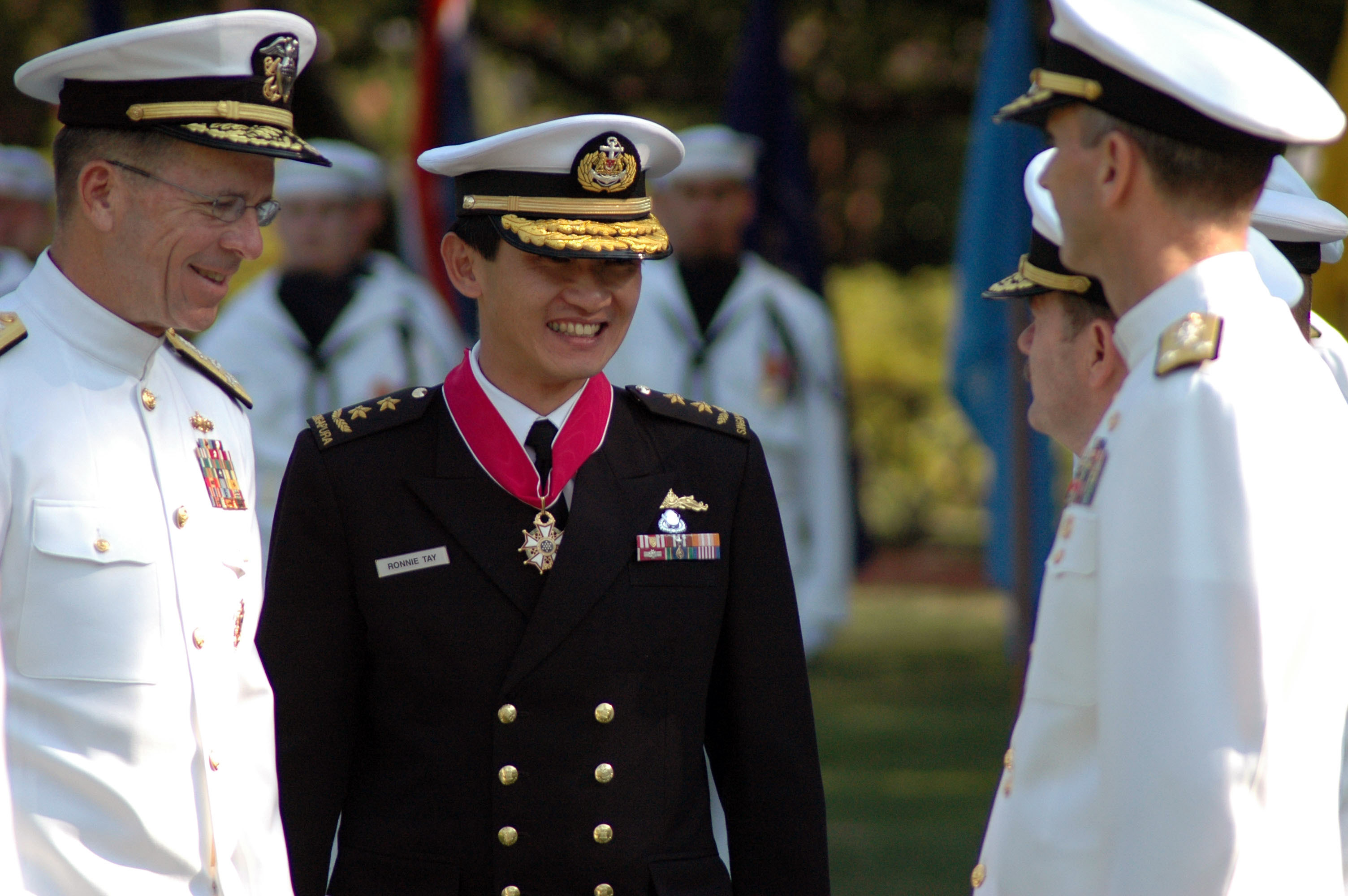 WASHINGTON, D.C. (July 24, 2007) - Chief of Naval Operations (CNO) Adm. Mike Mullen and Chief of Republic of Singapore Navy Rear Adm. Ronnie Tay enjoy a light moment while talking with OPNAV staff. This was the concluding portion of a full honors arrival ceremony held in Tay's honor at the Washington Navy Yard's Admiral Leutze Park. U.S. Navy photo by Philip Molter (RELEASED)